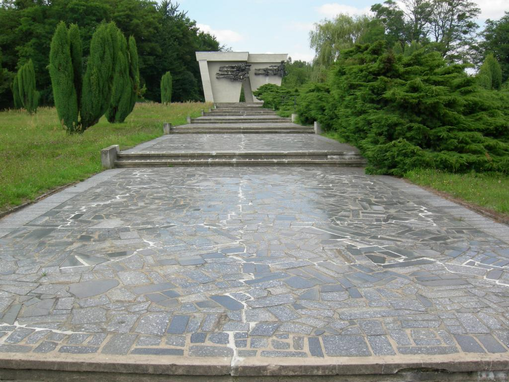 Monument in rememberance of POW of WWII in Łambinowice (Lamsdorf).